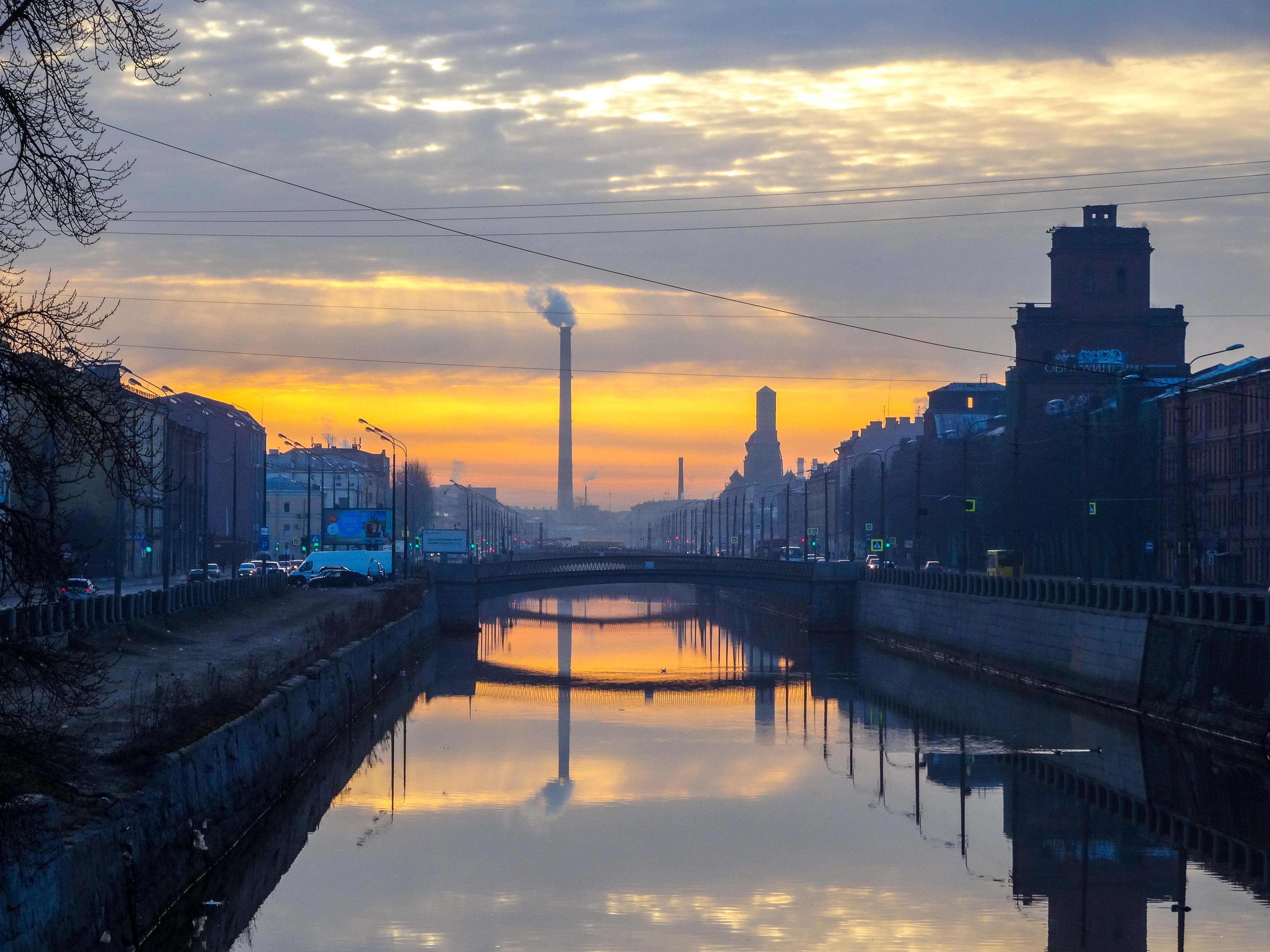 View of Obvodny kanal from Novo-Kalinkin bridge. April 2016